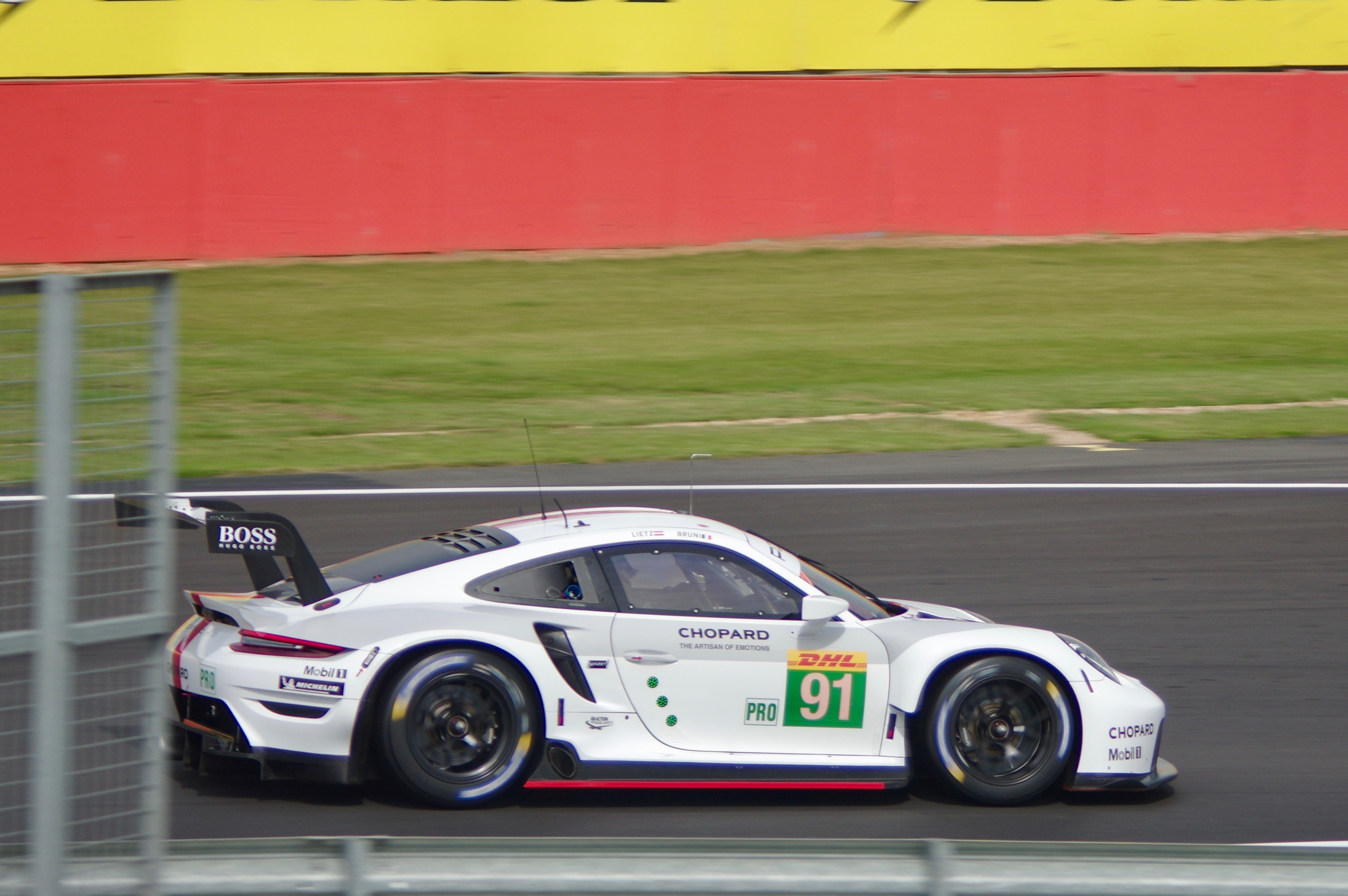 2019 4 Hours of Silverstone 91.